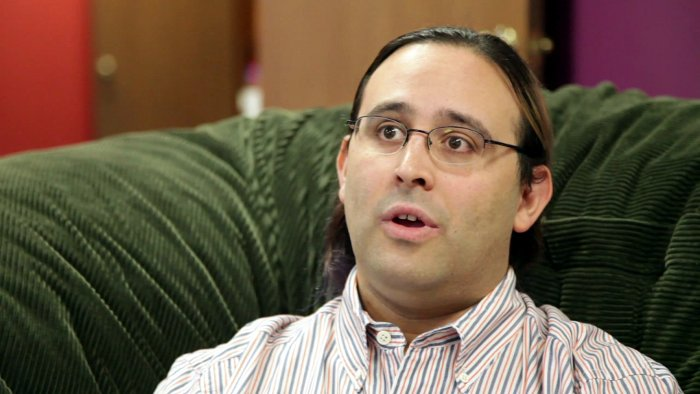 Image from the documentary film "Patent Absurdity"